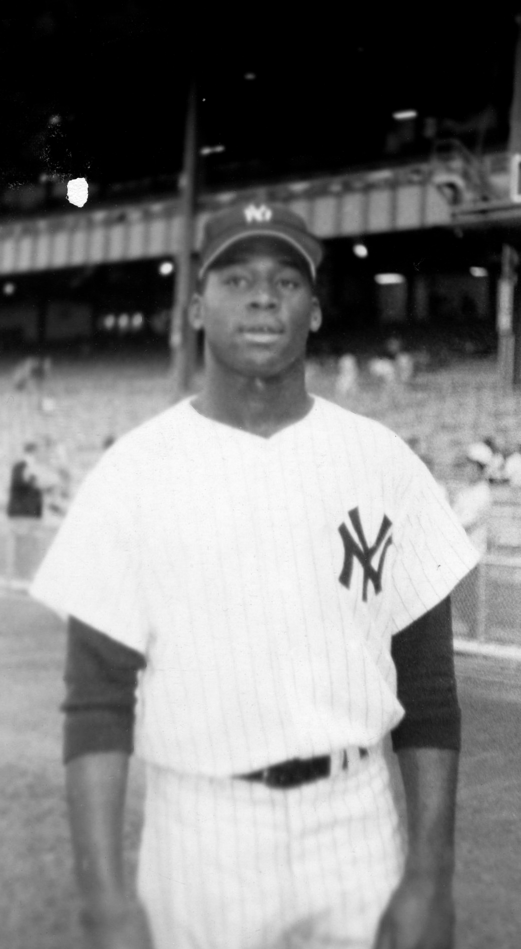 Al Downing during pre-game warmup at Yankee Stadium, Bronx, NY